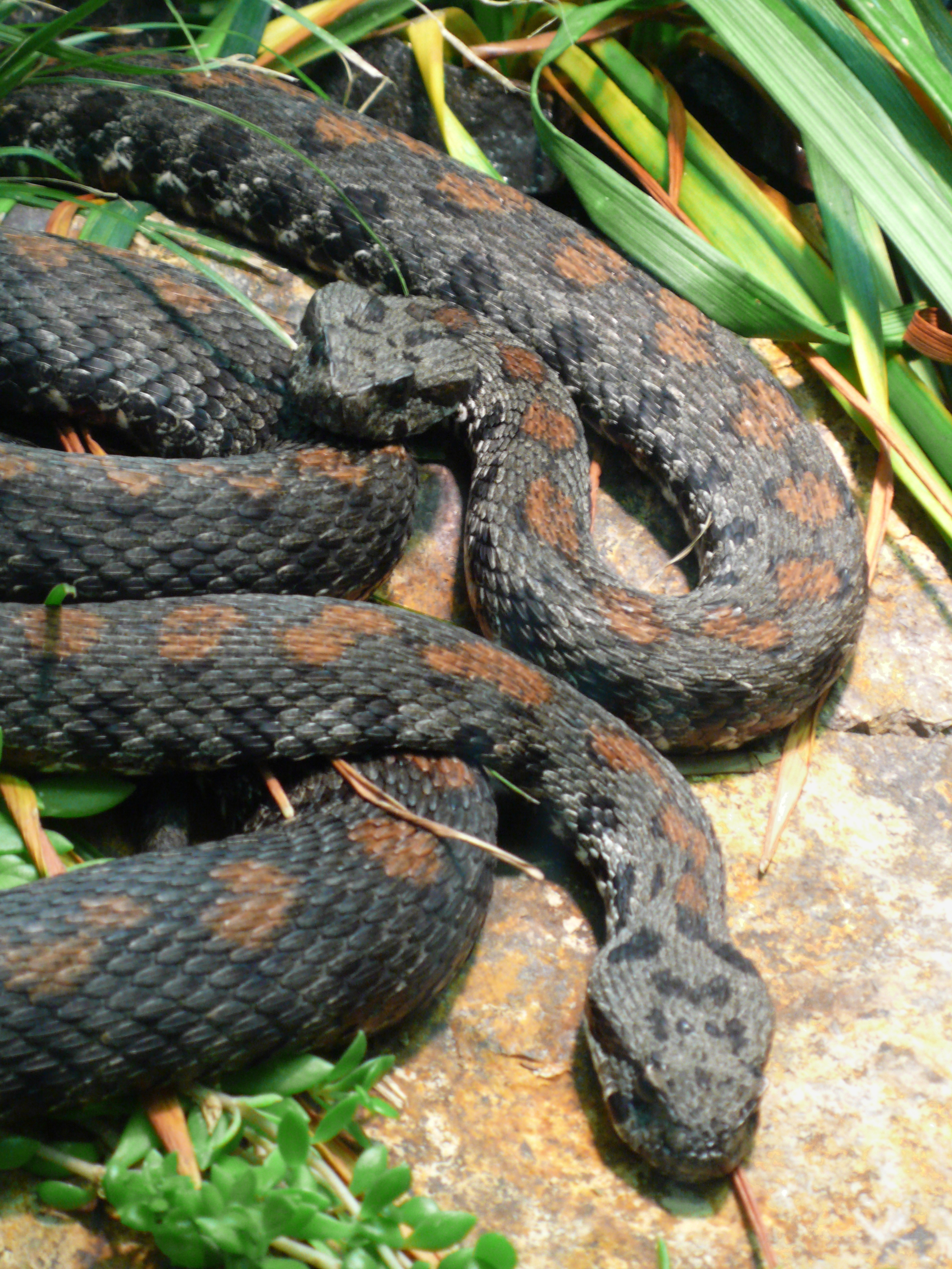 Armenian vipers (Montivipera raddei or also Vipera raddei)